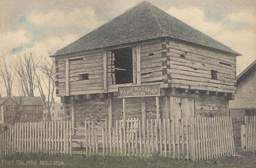 Fort Halifax, Winslow, Maine